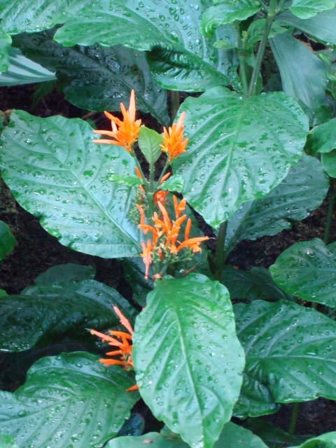 Picture of Justicia spicigera Added note: cultivar 'Sidicaro'